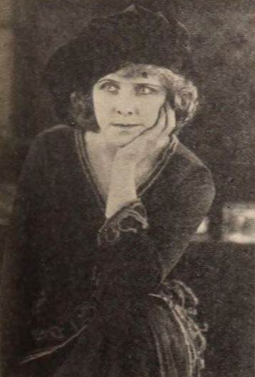 Still from the American crime drama film Miss 139 (1921) with Diana Allen, on page 71 of the November 6, 1920 Exhibitors Herald.